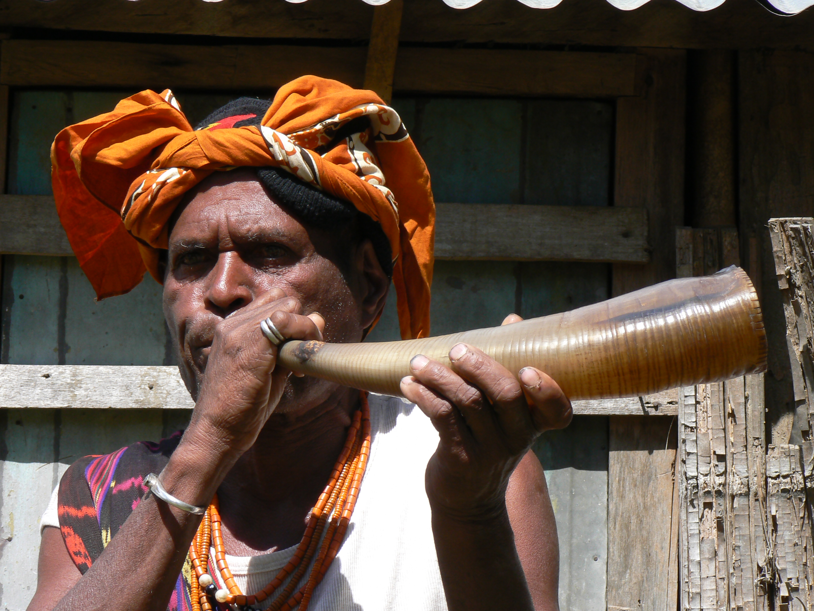 Karau dikur is played in the Sacred House and in the king’s palace, and it is used to call for people or the inhabitants, to let the community know about a big event. It is blown to accompany the Bidu Lulik (a traditional sacred dance) and other dances. This instrument is made of buffalo horn